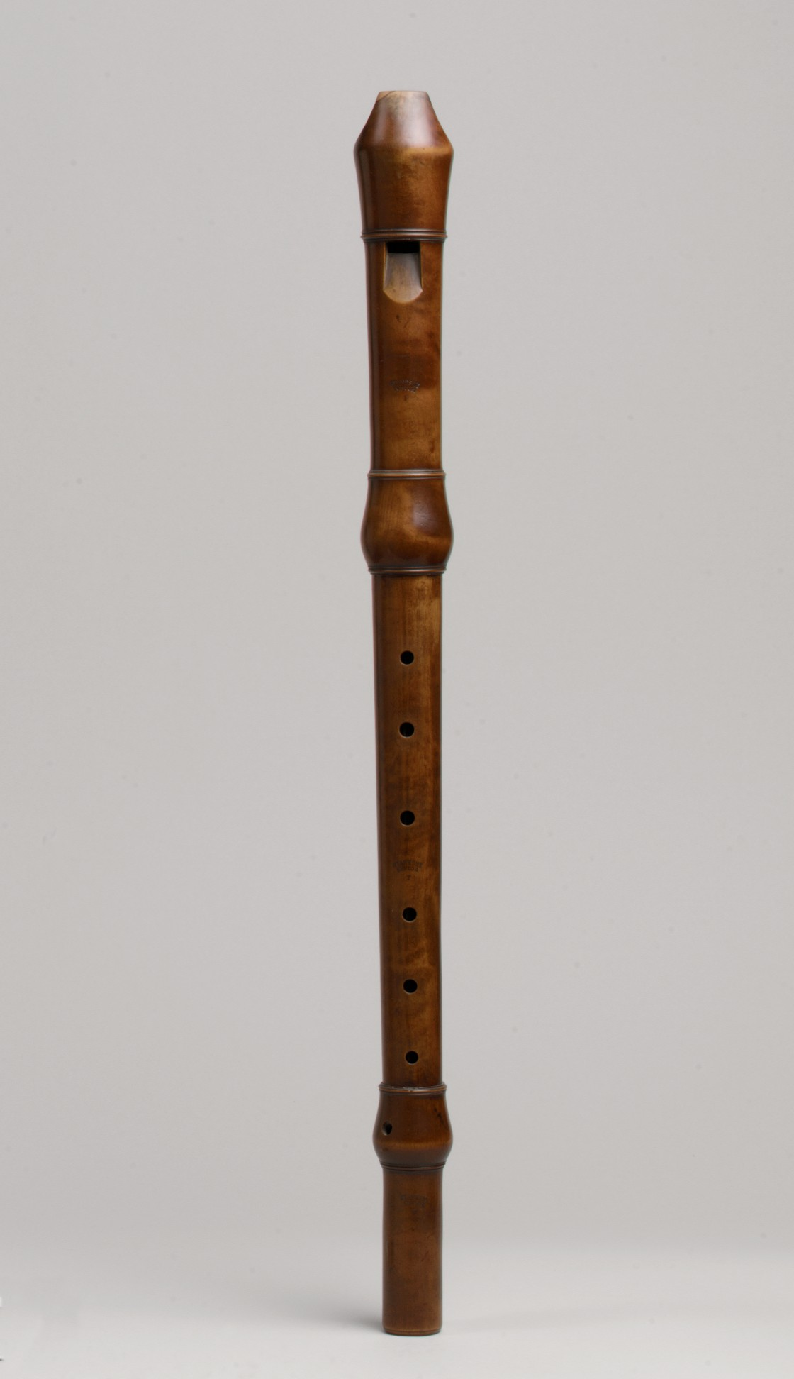 British; Alto Recorder in F; Aerophone-Whistle Flute-recorder